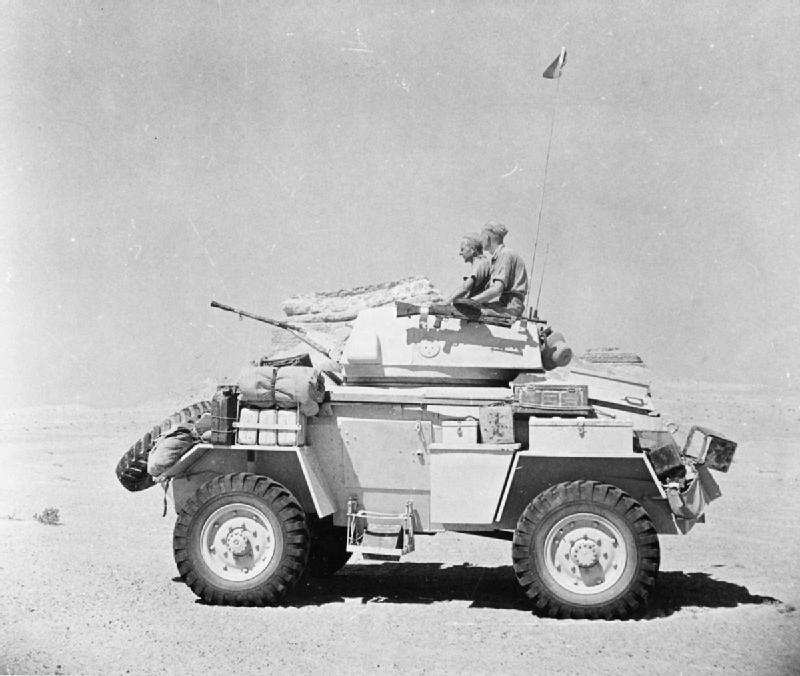 The British Army in North Africa 1942 A Humber Mk III armoured car of the 12th Royal Lancers on patrol in the Western Desert, 10 August 1942.